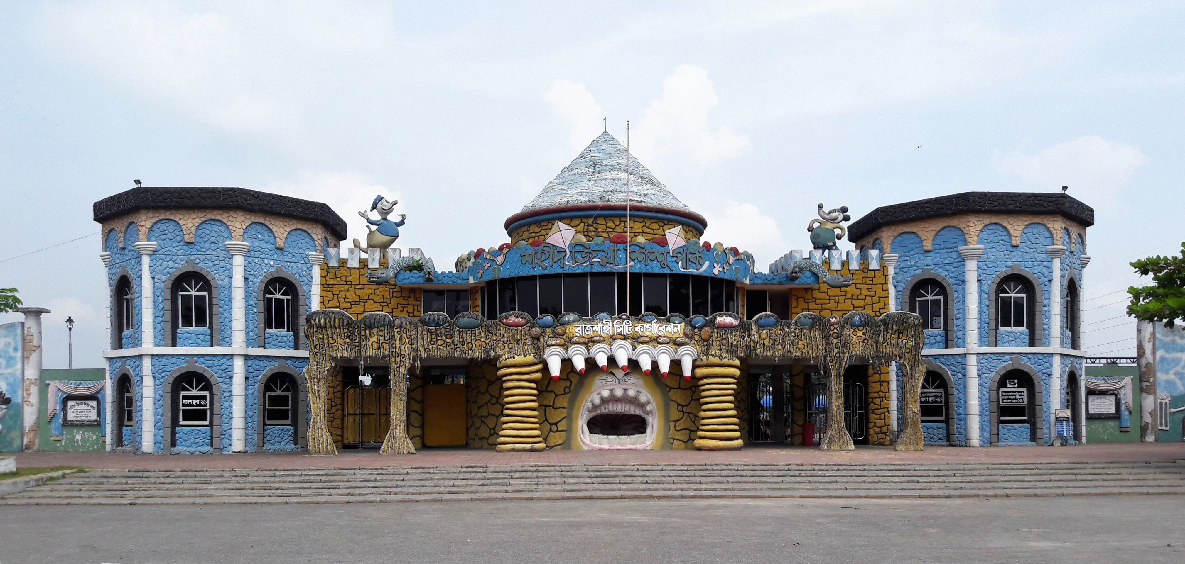 Shahid Zia Shishu Park is one of the public sector children's amusement parks in Rajshahi, Bangladesh.